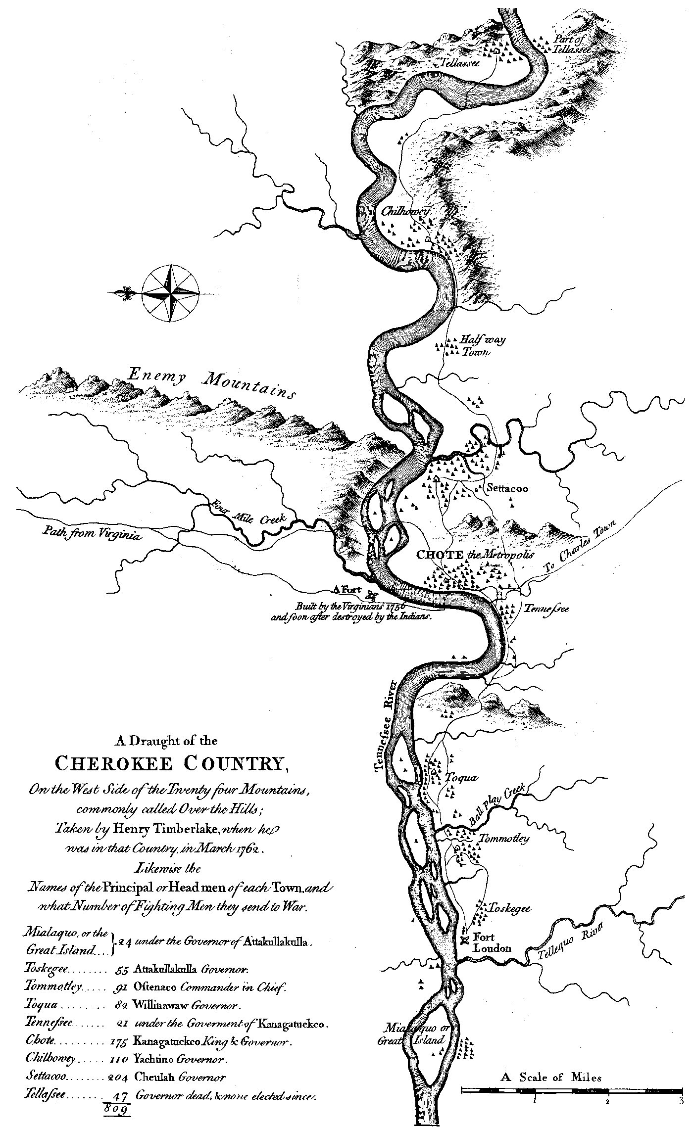 Lt. Henry Timberlake's "Draught of the Cherokee Country," depicting the locations of several Overhill Cherokee towns following the end of the Anglo-Cherokee War, taken from: Timberlake, Lieutenant Henry. The Memoirs of Lieutenant Henry Timberlake (who accompanied the three Cherokee Indians to England in the year 1762) containing… 1765, republished as “Lieutenant Henry Timberlake’s Memoirs, 1756-1765” by Samuel Cole Williams, ed. Johnson City, TN, 1927